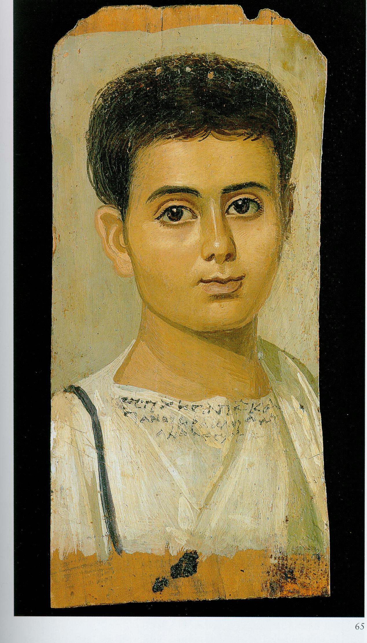 Painted mummy cover of a young boy, identified by inscription as Eutyches, dating to the Roman Period, 2nd century A.D., made of encaustic on wood. On display at the Metropolitan Museum of Art. AN 18.9.2